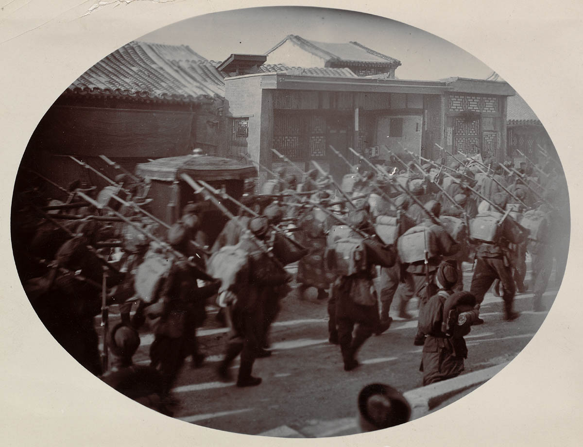 Wuwei Right Troop of Yuan Shikai escorting Empress Dowager back to the Forbidden City 1901